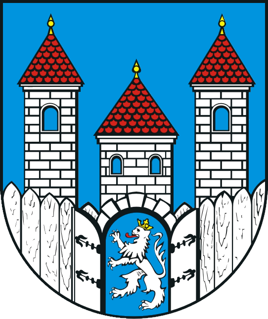 Holzminden received city rights in the early 13th century. The oldest known seal, however, dates from 1535. The seal showed a wooden wall with three towers. A wooden wall is a very rare element in medieval seals. The arms were granted in 1905 and were based on the old seal. The lion was added in 1905 and is derived from the arms of the counts of Everstein, who had granted the city rights.